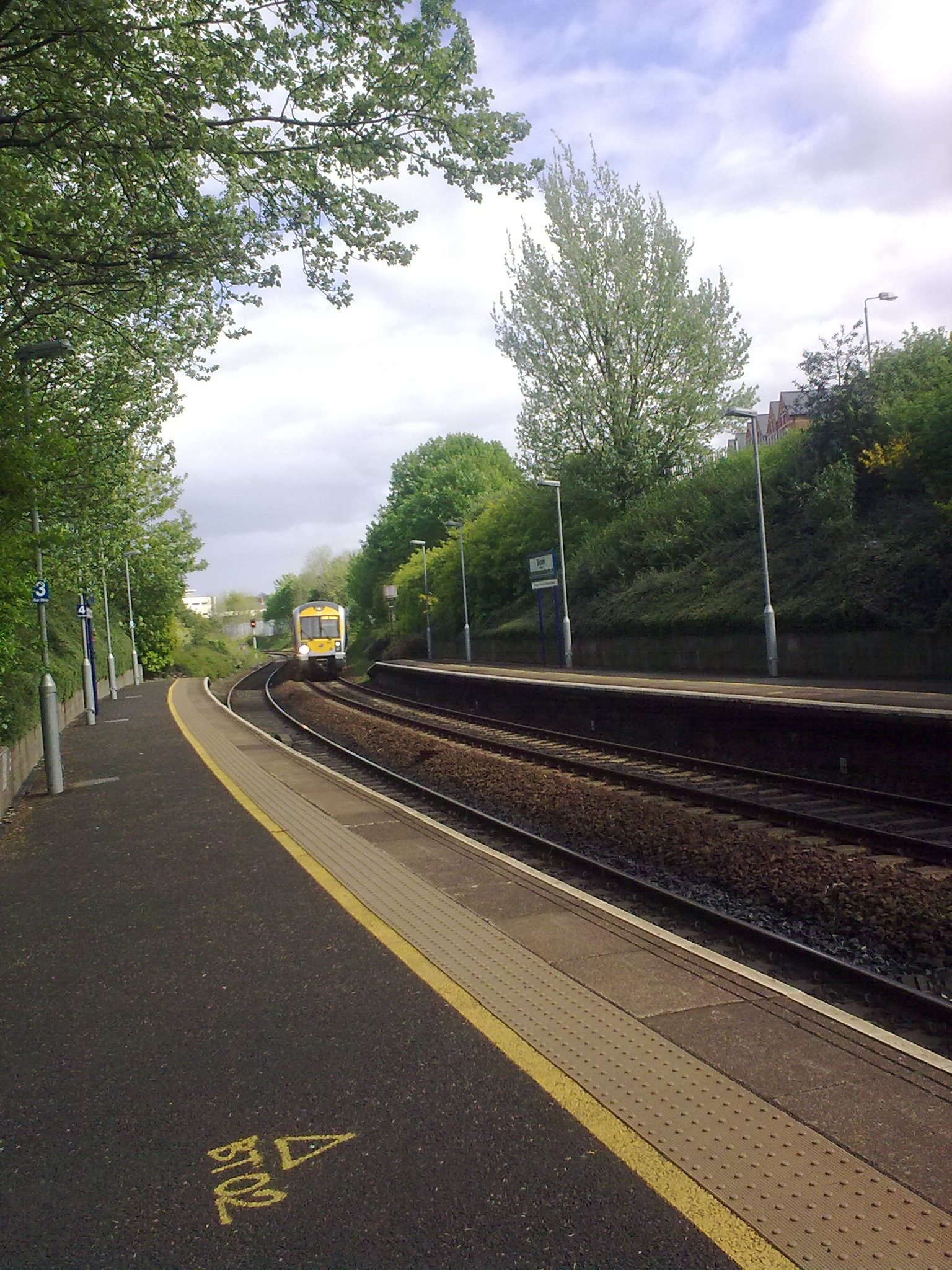 Taken by myself using Nokia 5800.